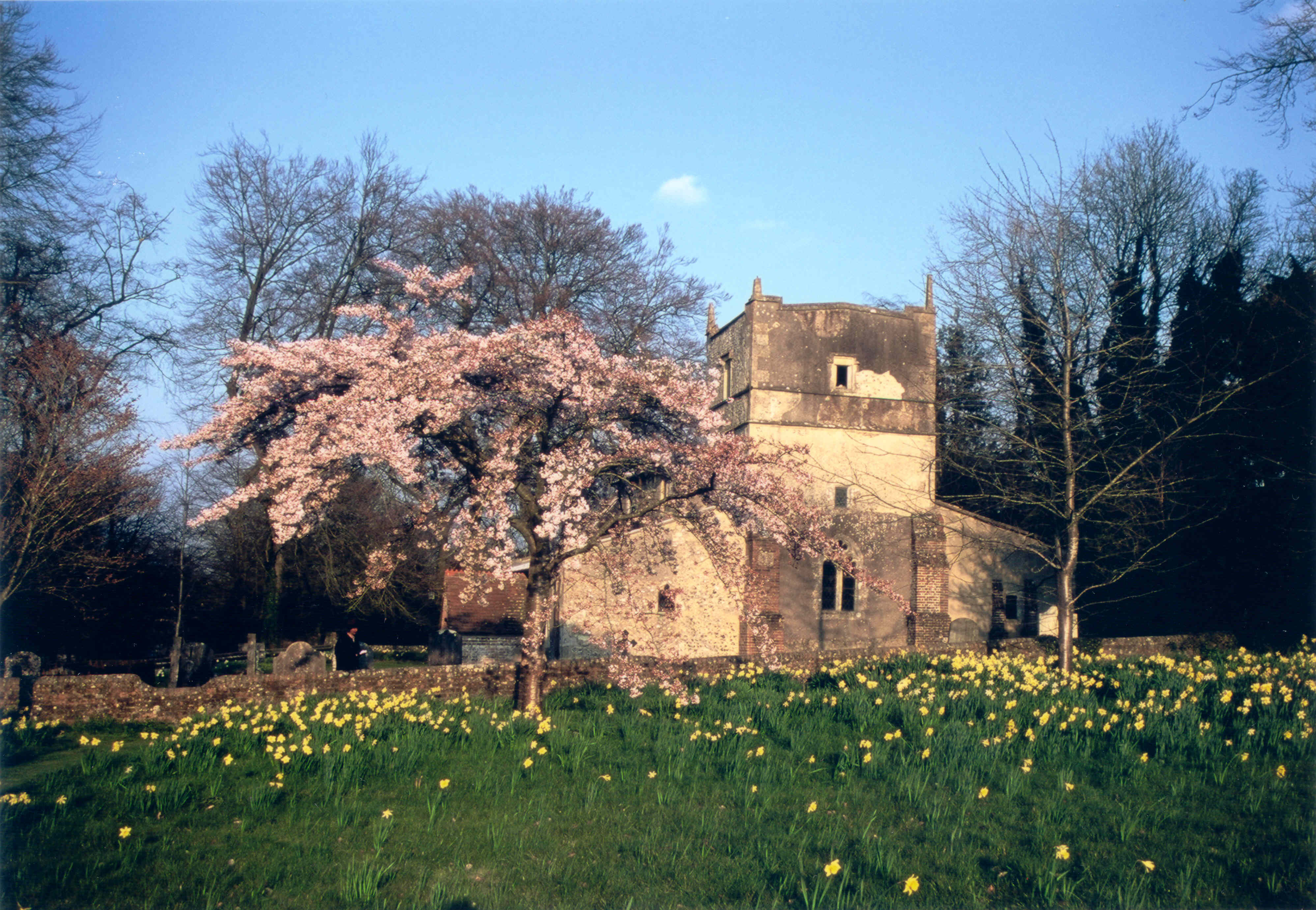 photo, Easter 2007, R. de Salis, Rodolph 22:37, 17 May 2007 (UTC)